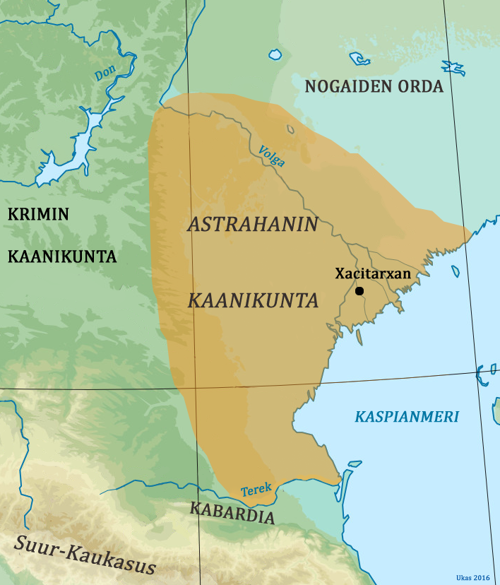 Map of Astrakhan Khanate